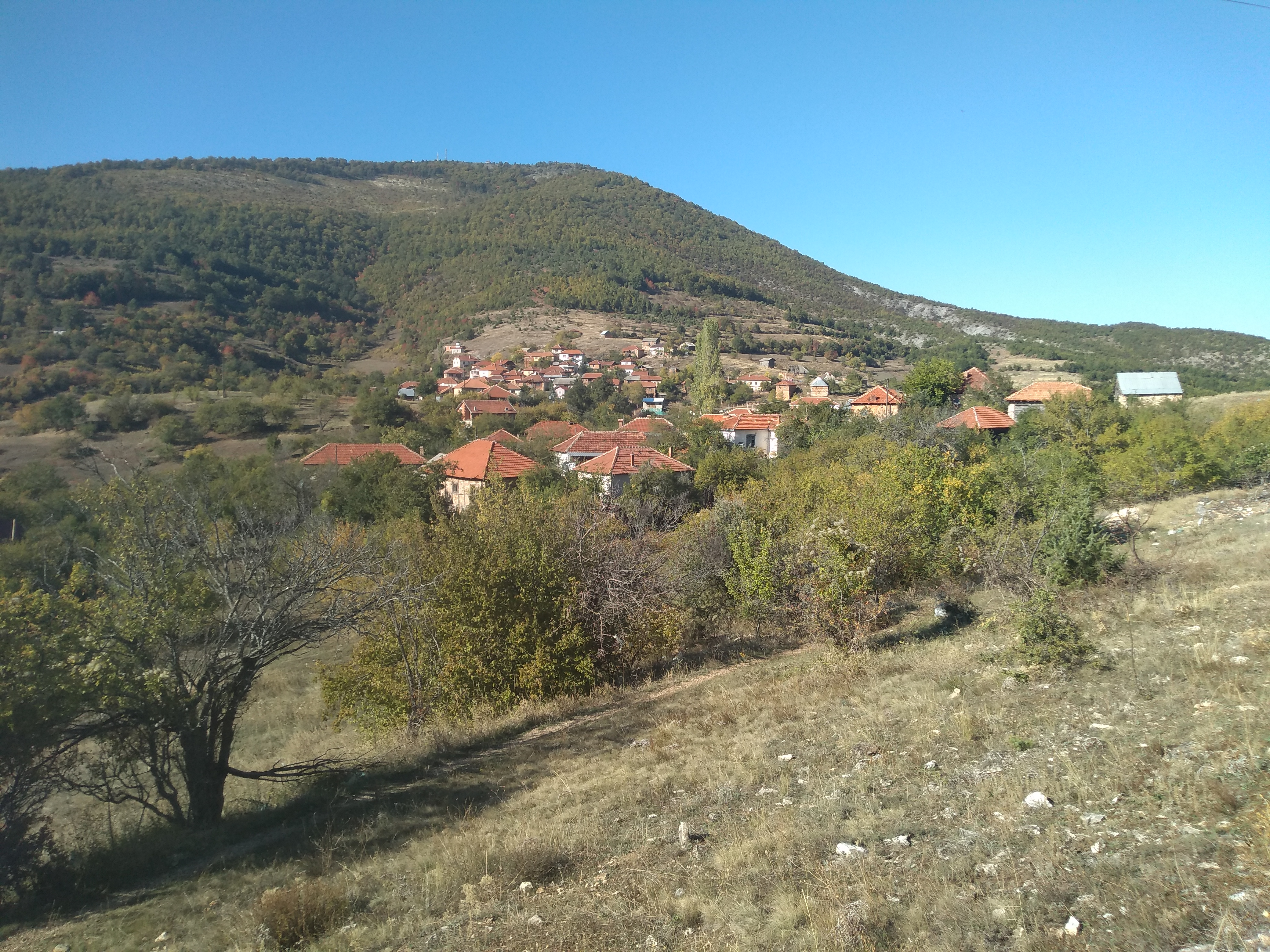 View of the village of Brest and Fojnik peak in the background in Porece region, Macedonia